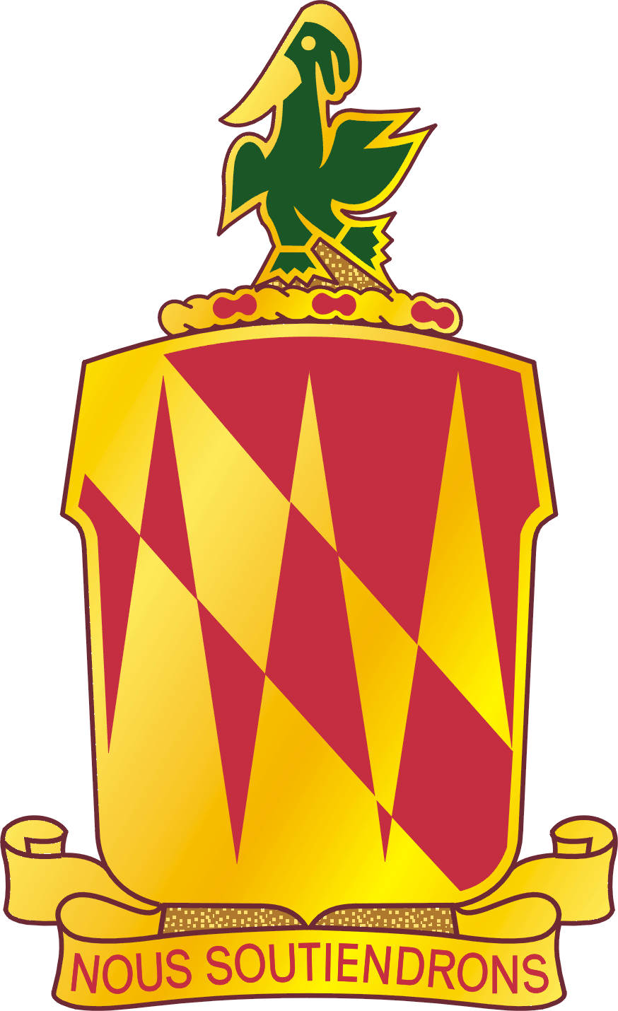 DUI of the 42 FA Bde (historical)